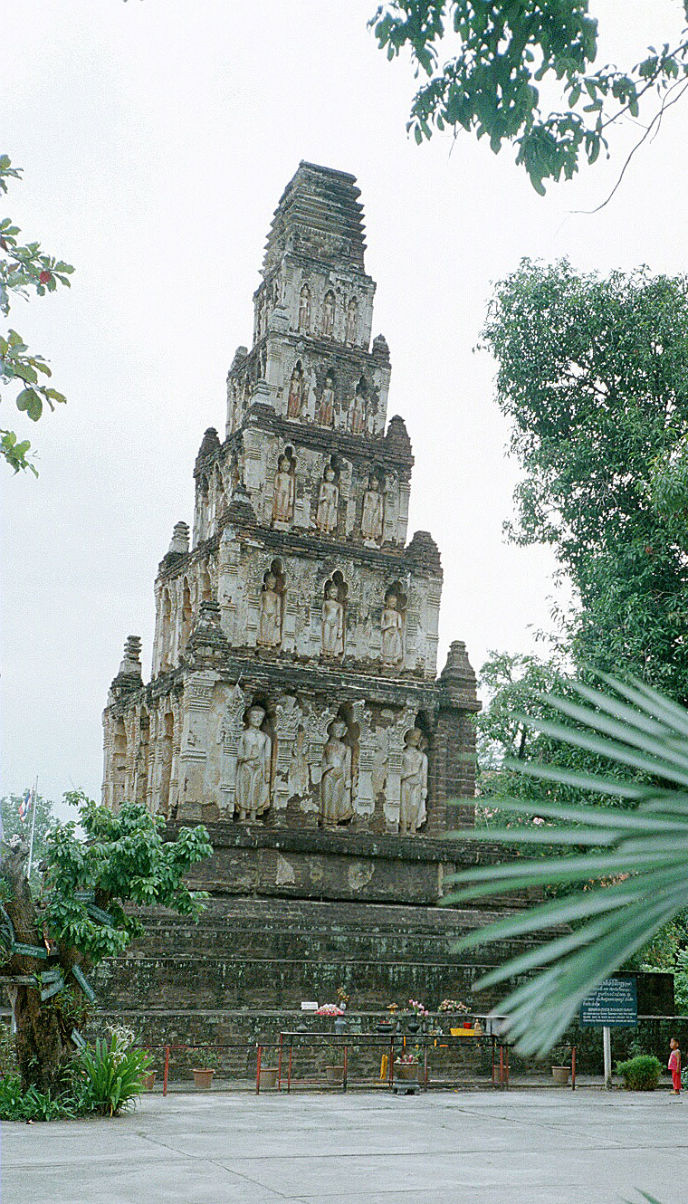 Square "stepped pyramid" chedi from Dvaravati period (Haripunchai), Wat Chama Thevi, Lamphun, northern Thailand